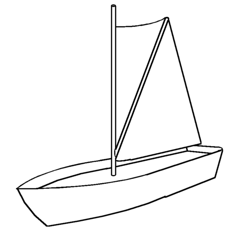 Split Sails. the figure is drawn by Yosemite.